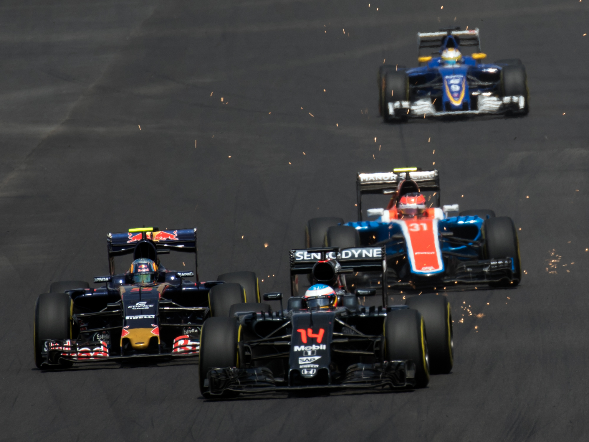 Formula One 2016 Rd.16 Malaysian GP: Fernando Alonso (McLaren)